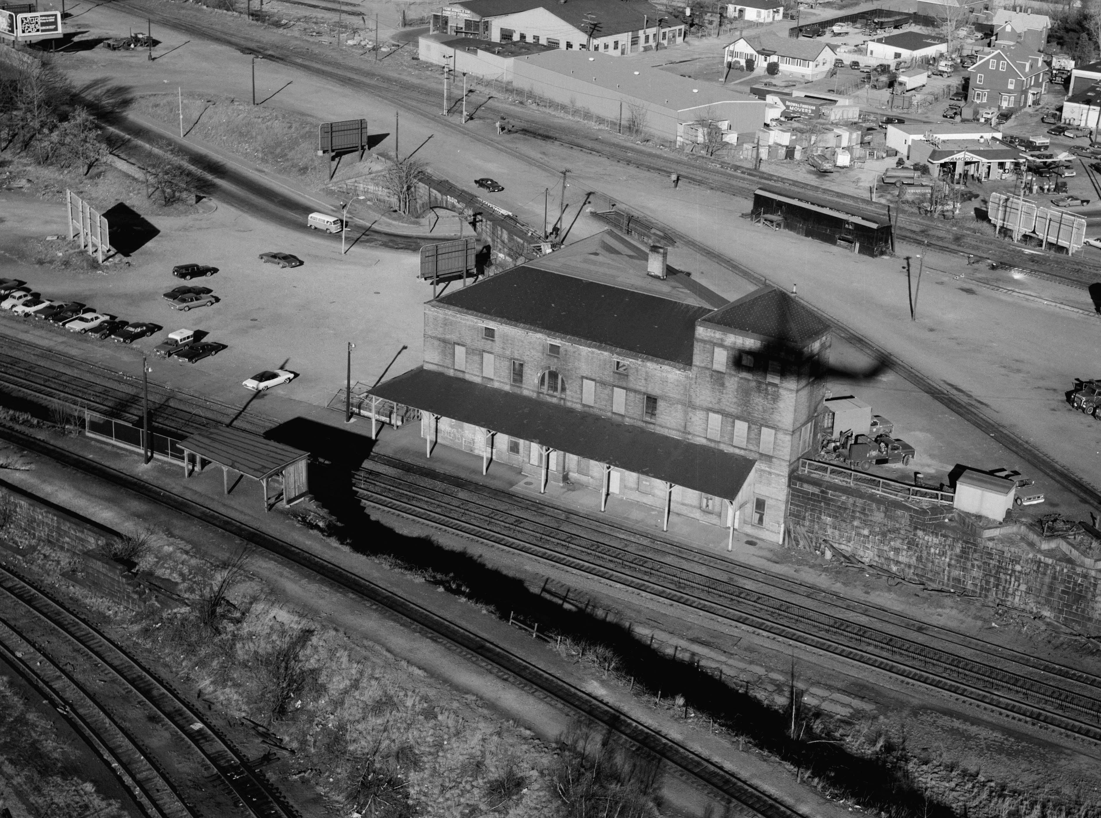 Original caption: New York, New Haven & Hartford Railroad: Readville Station (destroyed by fire June 1983). Uploader's note: This area is now owned by the MBTA and known as Readville 5-Yard.